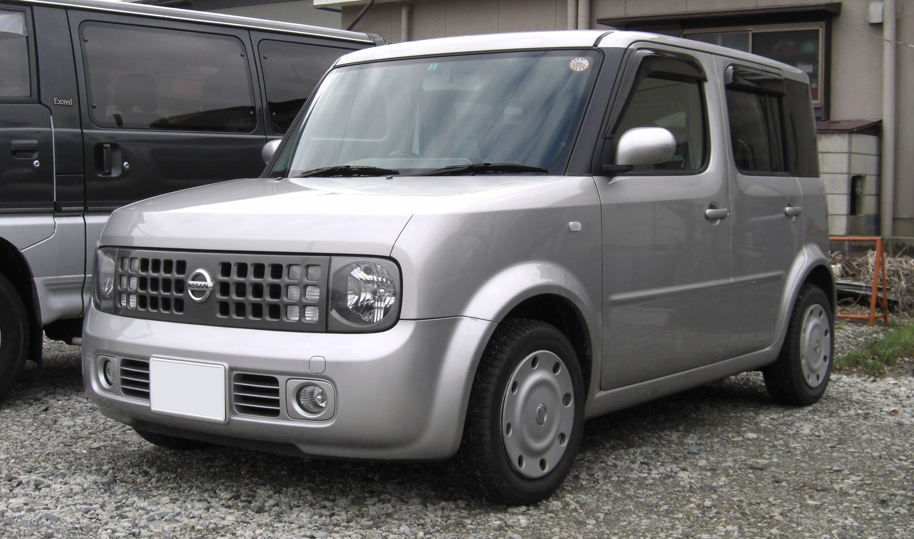 NISSAN cube